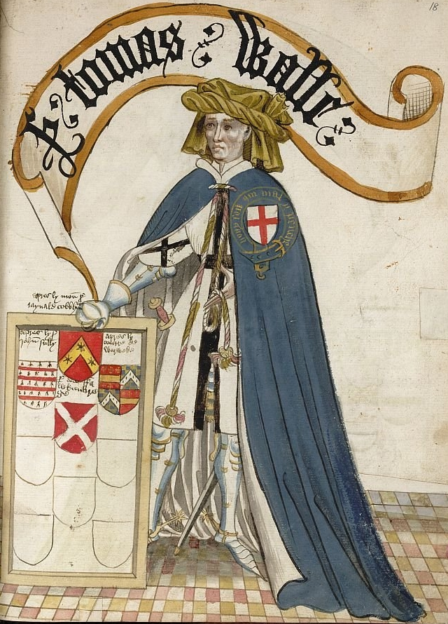 Thomas Walle KG from the Bruges Garter Book, 1430/1440, BL Stowe 594